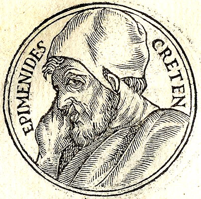 Epimenides was a semi-mythical 6th century BC Greek seer and philosopher-poet.